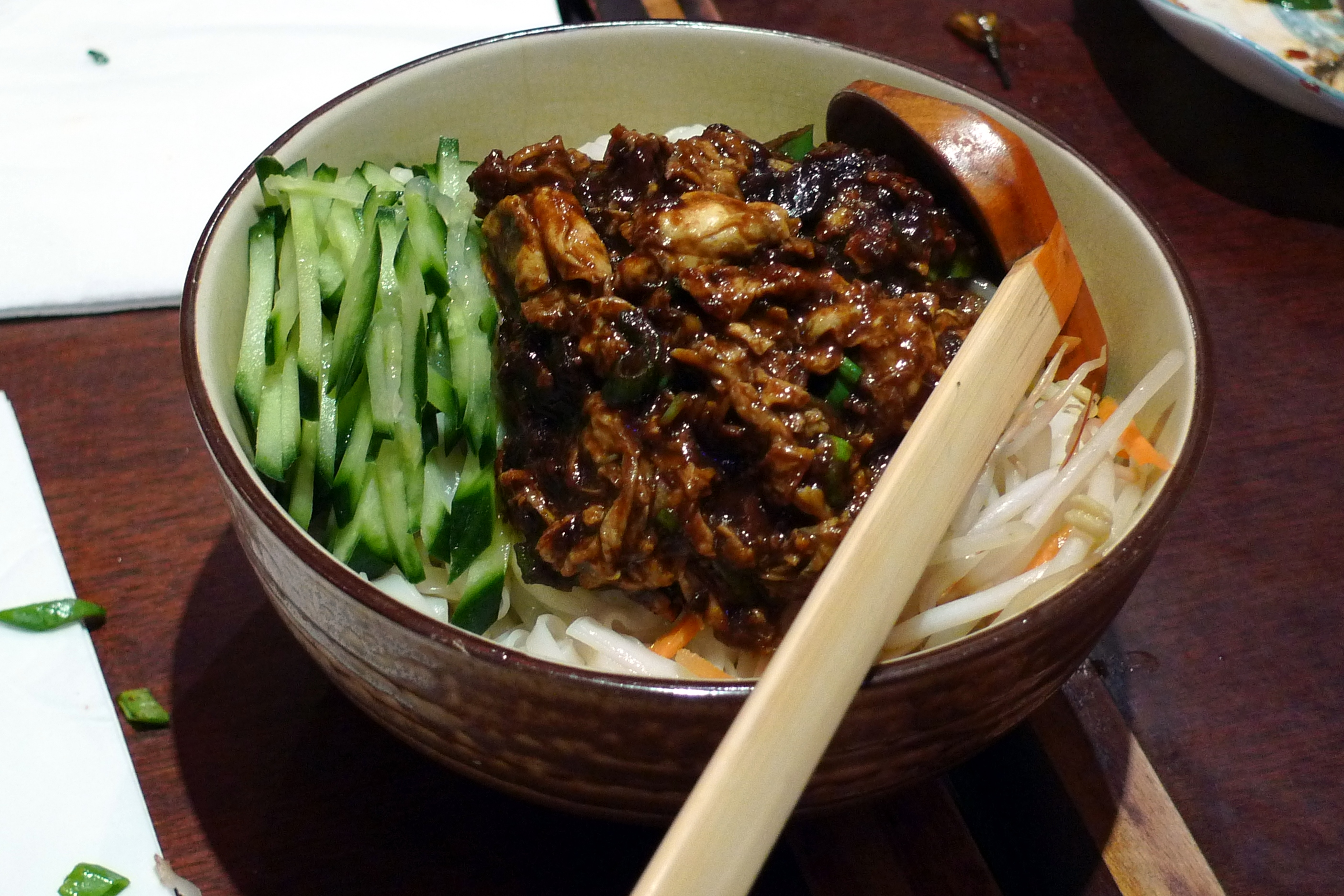 Zhajiangmian, traditional Beijing-style fried bean paste noodles, with a topping that you mix up in the bowl. Alright, if nothing amazing. At Taste of Beijing, Frith Street.